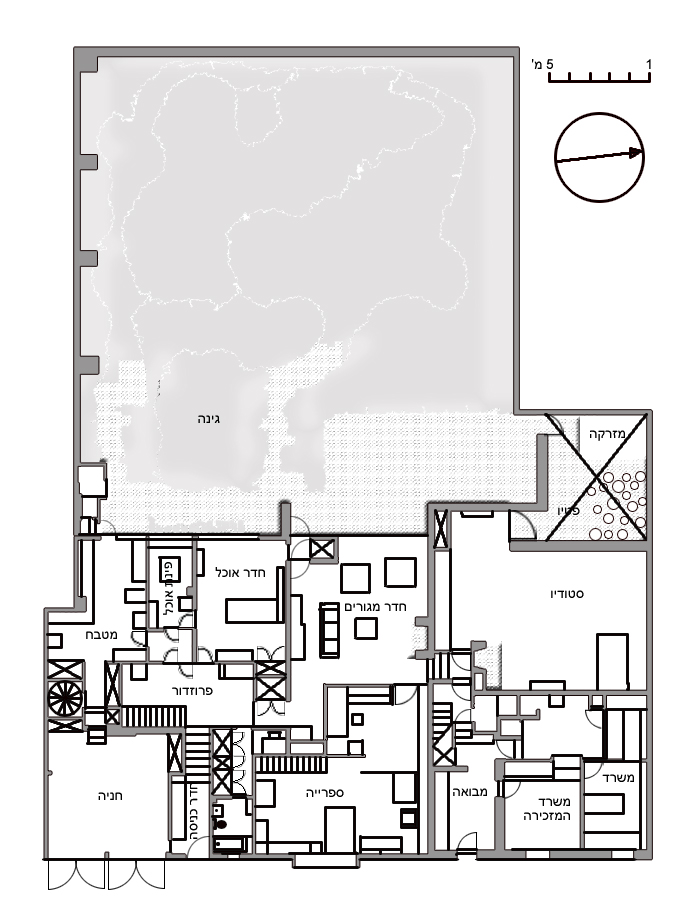 Ground floor plan: Luis Barragán House and Studio. Located in Mexico, D. F.